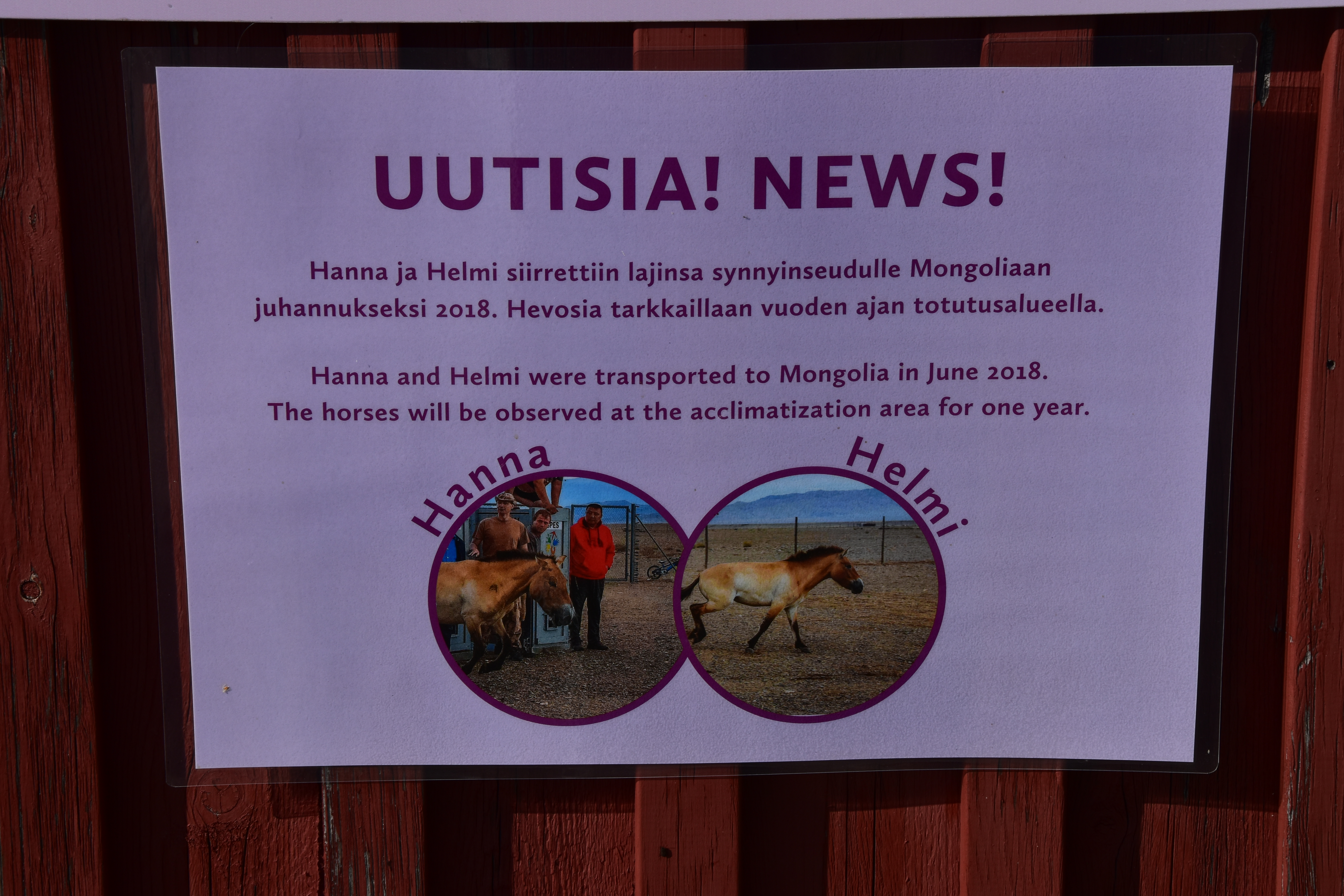 Helsinki Zoo – Przewalski's horse, Back to the Mongolain steppe signage 2 - news 2018